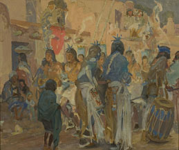 Allen Tupper True's easel painting titled Santo Domingo Corn Dancers, c. 1915, oil on canvas.